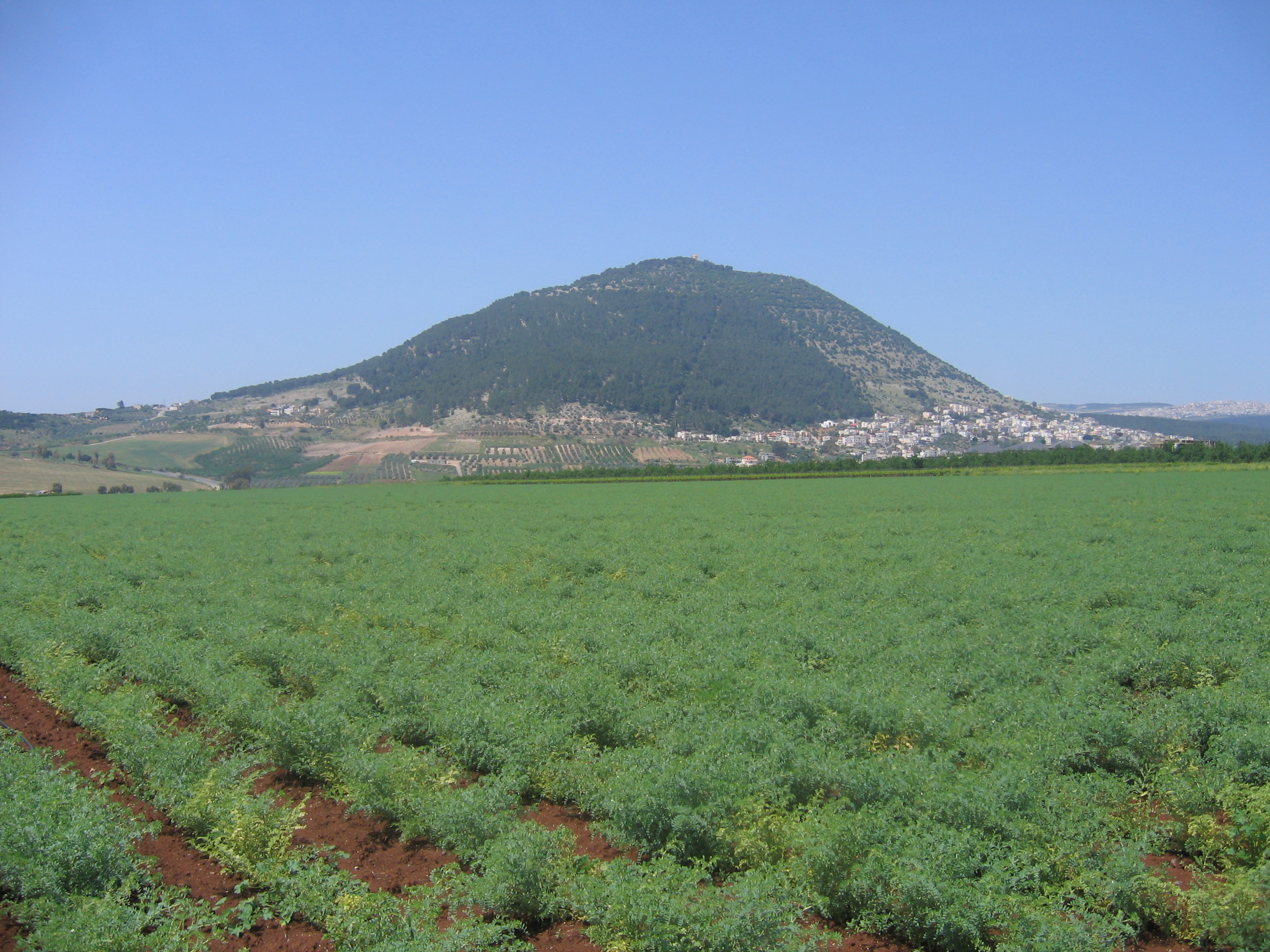 Photo of Mount Tavor, Israel. In the foreground a field of chickpea (Cicer arietinum).